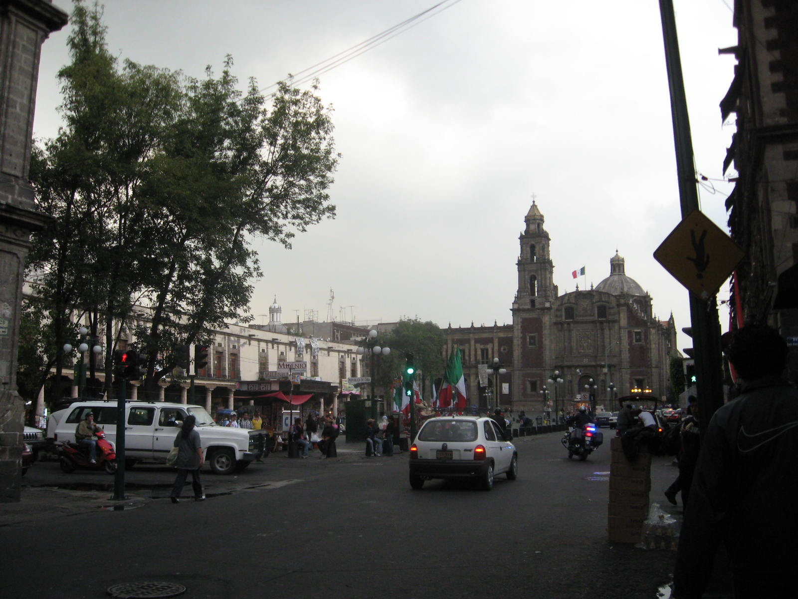 Plaza Santo Domingo located just north of the Zocalo on Republica de Brasil Street in the Centro of Mexico City, the Church of Santo Domingo is in the background